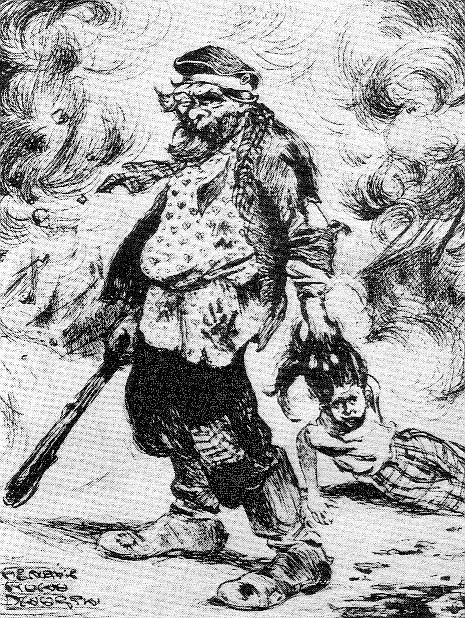 Printed caricature by Henryk Nowodworski. Note: the original caption is not a part of the scanning area. Allegedly depicting pogrom białostocki, 1905.